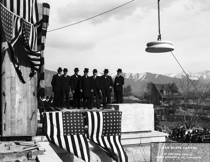 The laying of the Utah State Capitol's cornerstone, April 4, 1914.